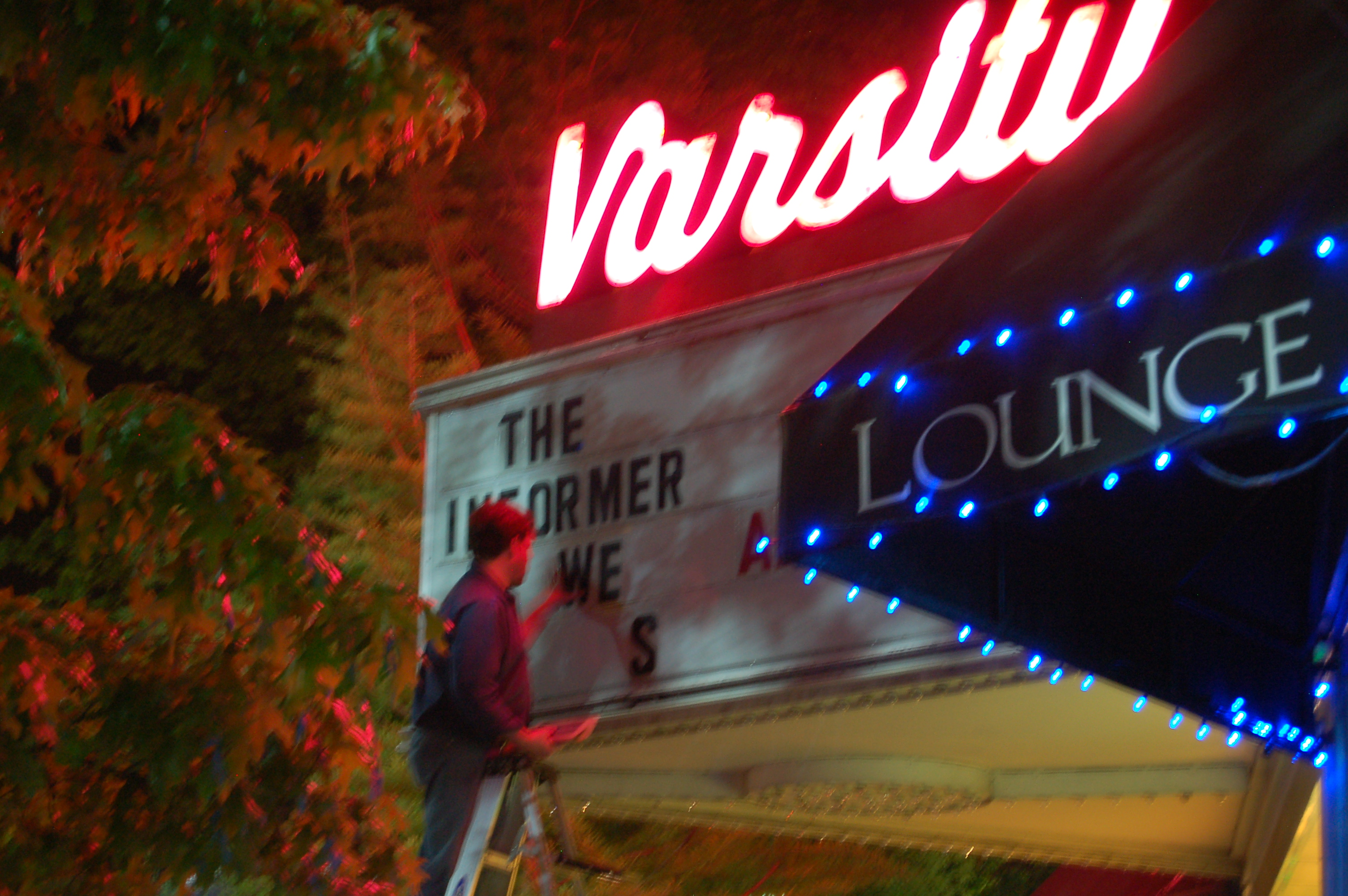 Marquee sign at the Varsity Theater in Chapel Hill, North Carolina.